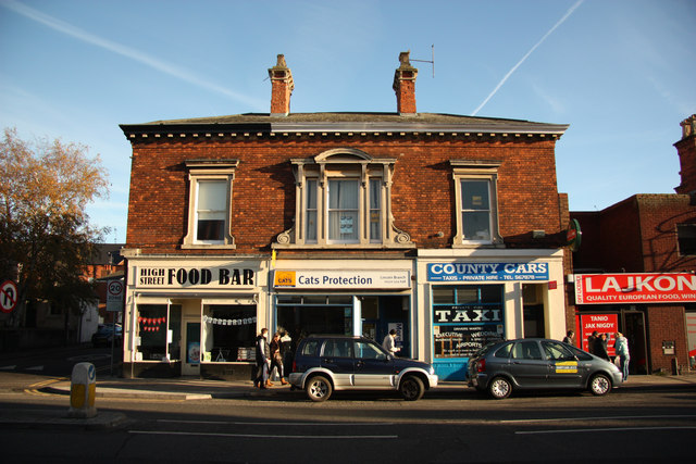 Former Lindsey Police HQ